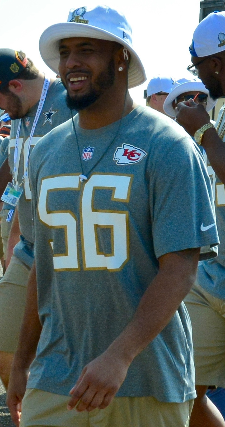 Derrick Johnson enters the 2016 Pro Bowl Draft show at Wheeler Army Airfield, Hawaii, Jan. 27.